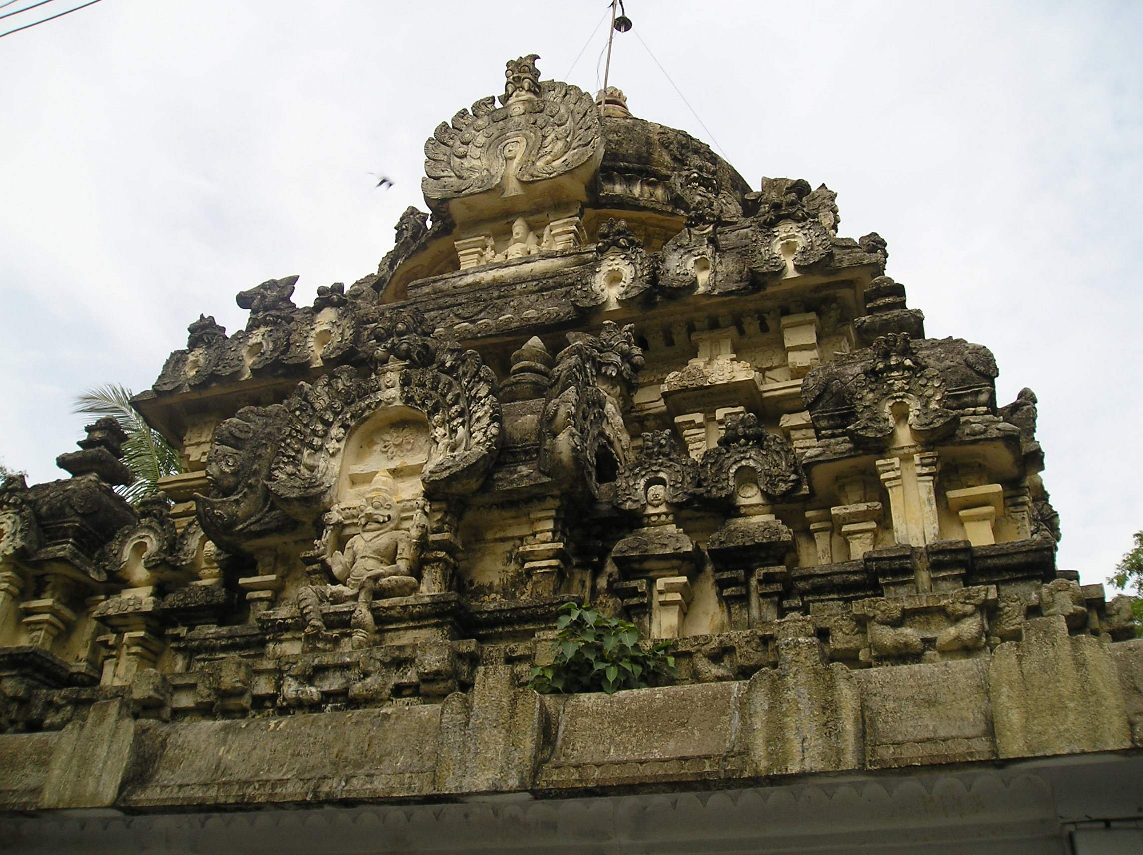 Kanchipuram Temples